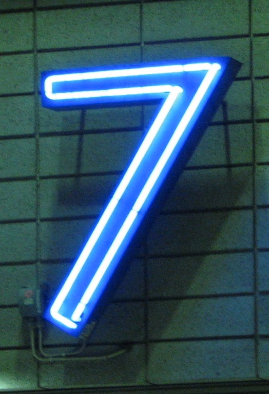 A neon-number seven on an entrance.